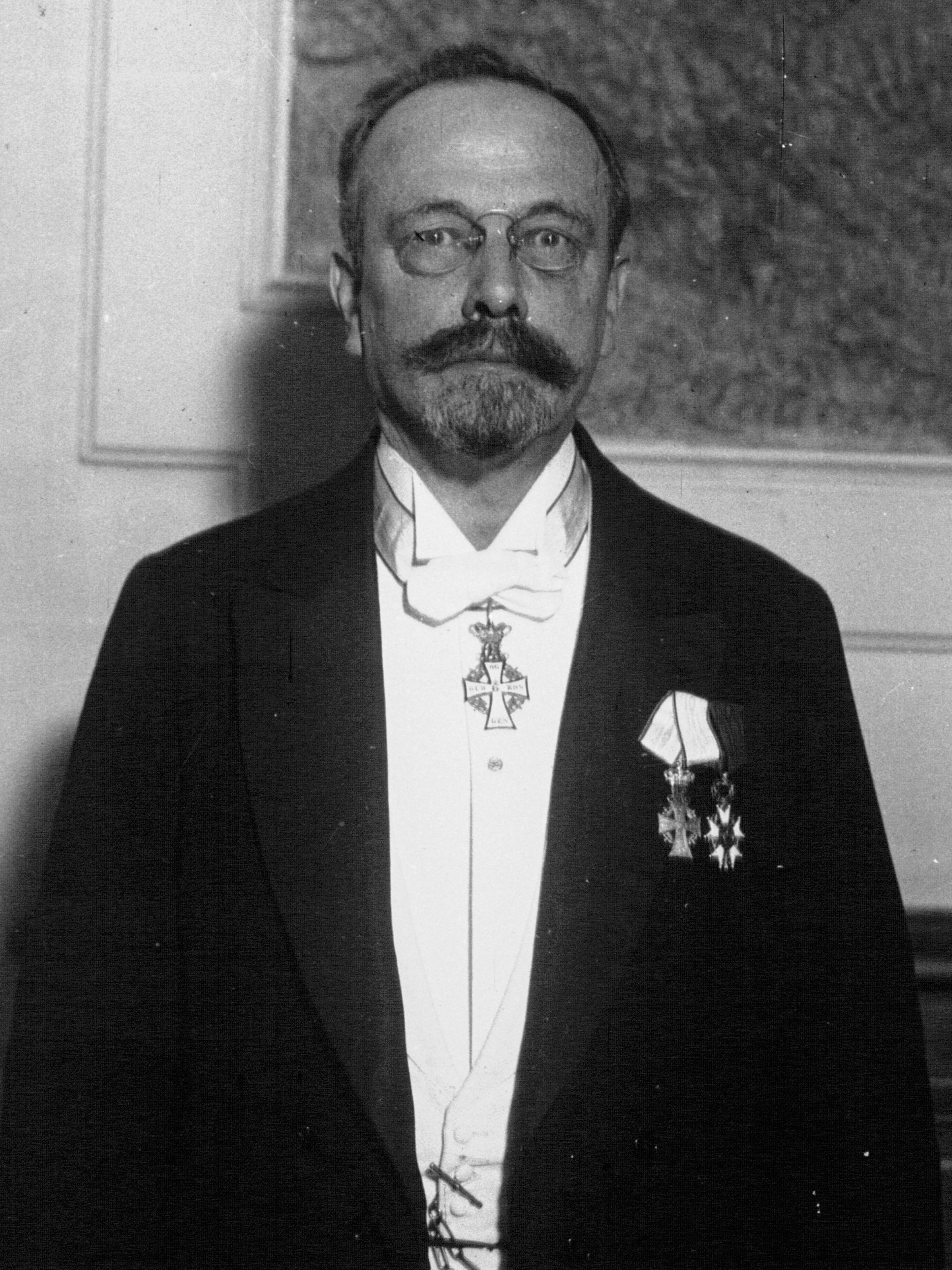 Danish physician and Nobel laureate Johannes Fibiger (1867-1928).